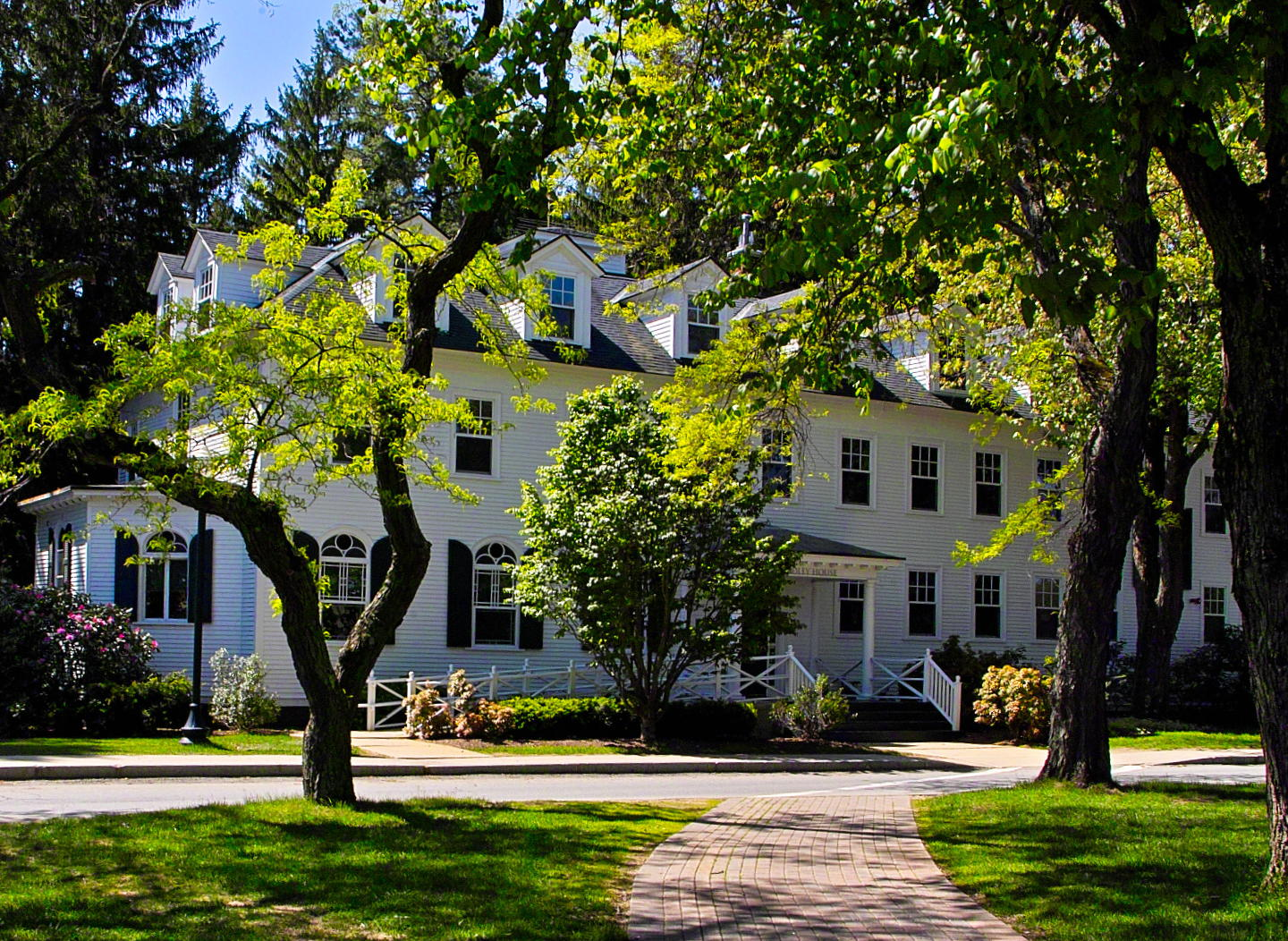 Bradley House